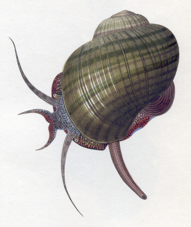 drawing of Pomacea paludosa